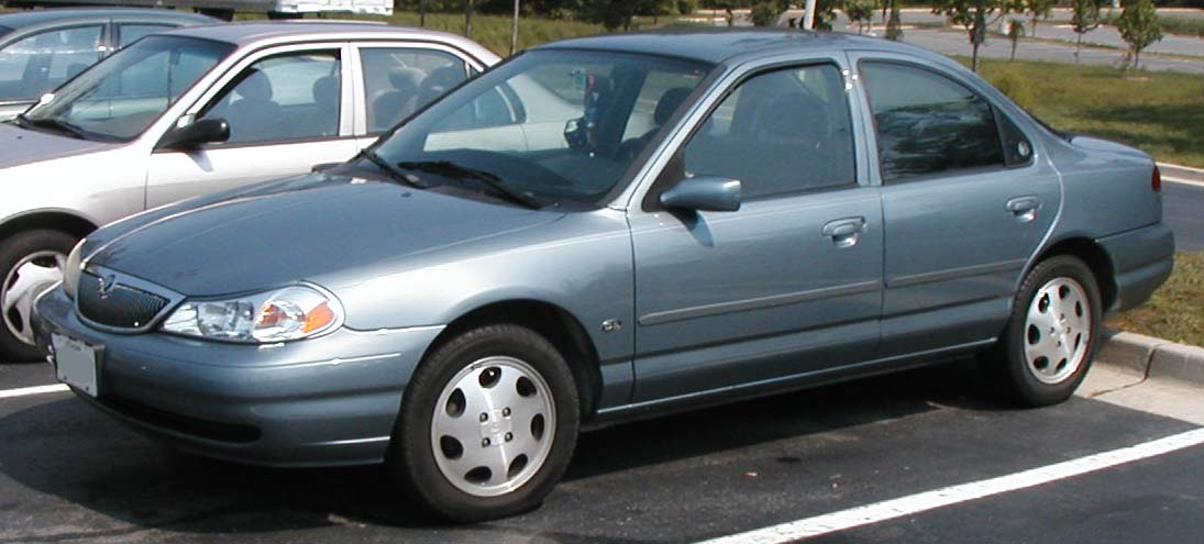 1998-2000 Mercury Mystique photographed in USA.